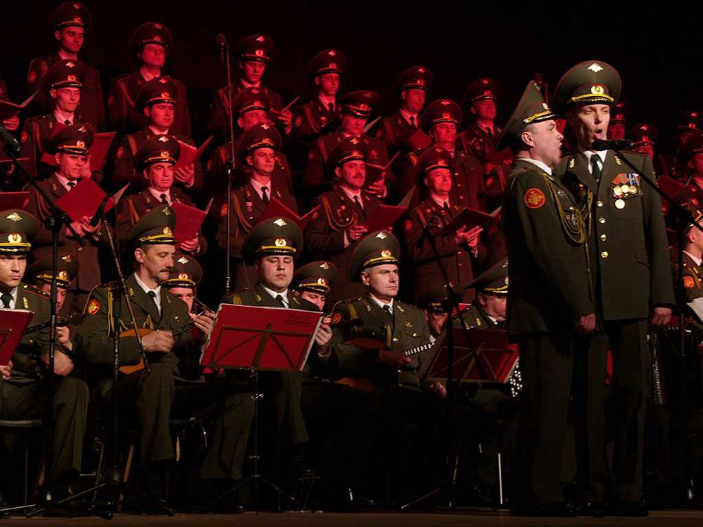 Alexandrov Ensemble choir. Concert in Bielsko-Biala, Poland